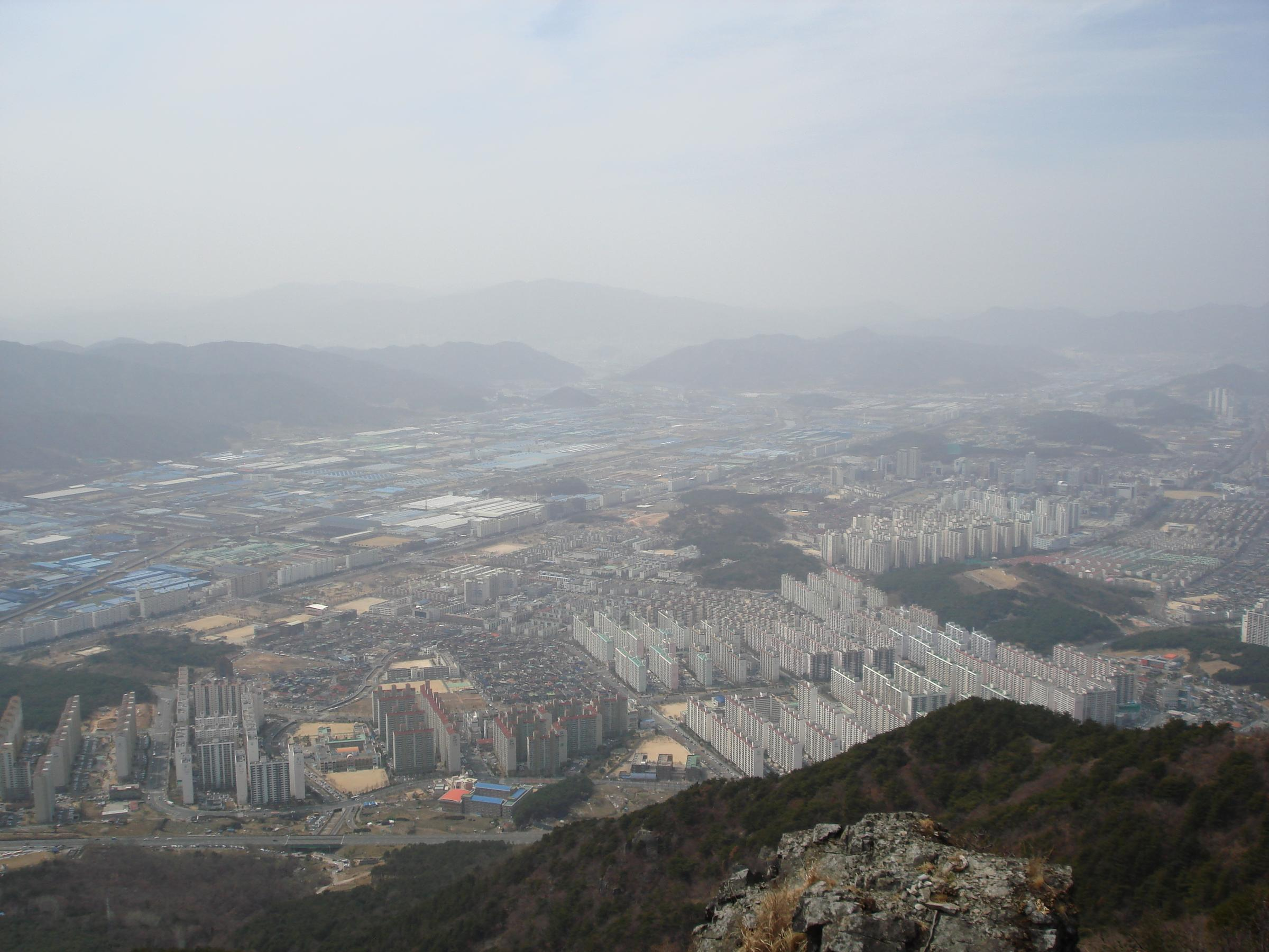 View of Changwon, South Korea. The Changwon Main Street (창원대로) can be seen dividing the city between the residential area in the north (on the right) and the industrial area in the south (on the left). The picture was taken from Mount Daeam (대암산).